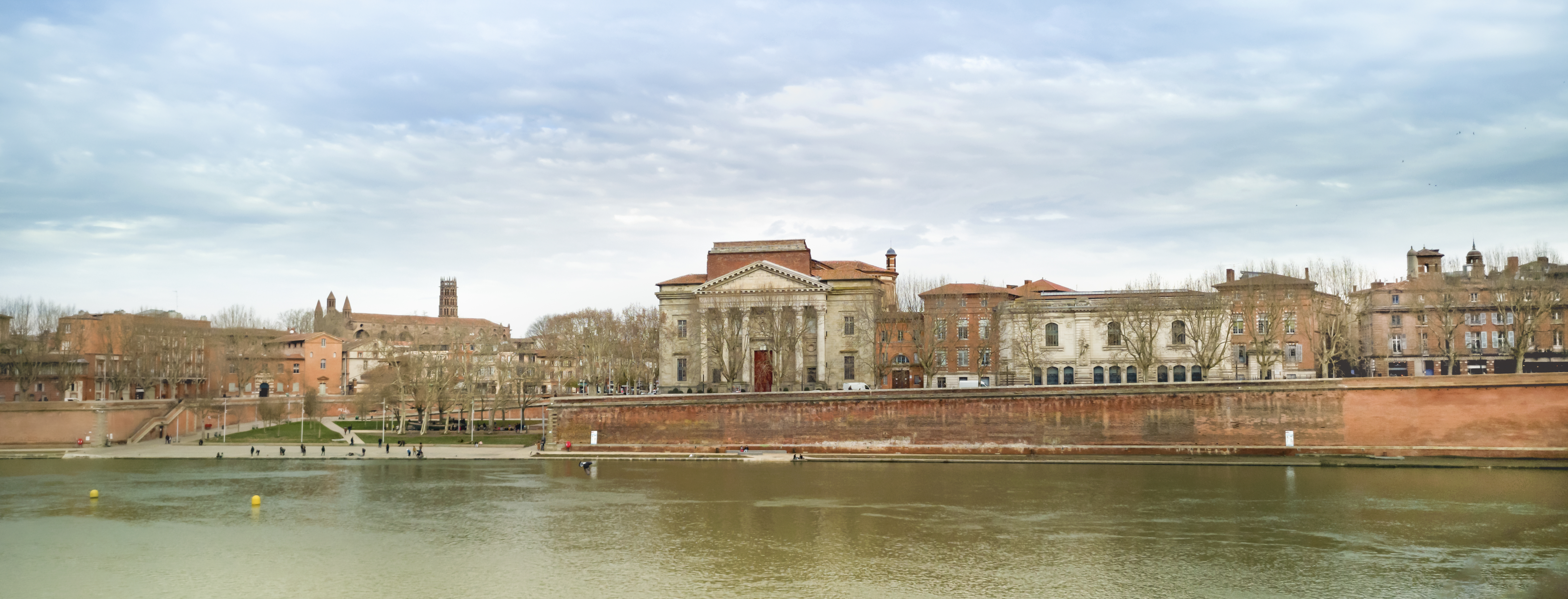 The port and the quay of la Daurade in Toulouse.